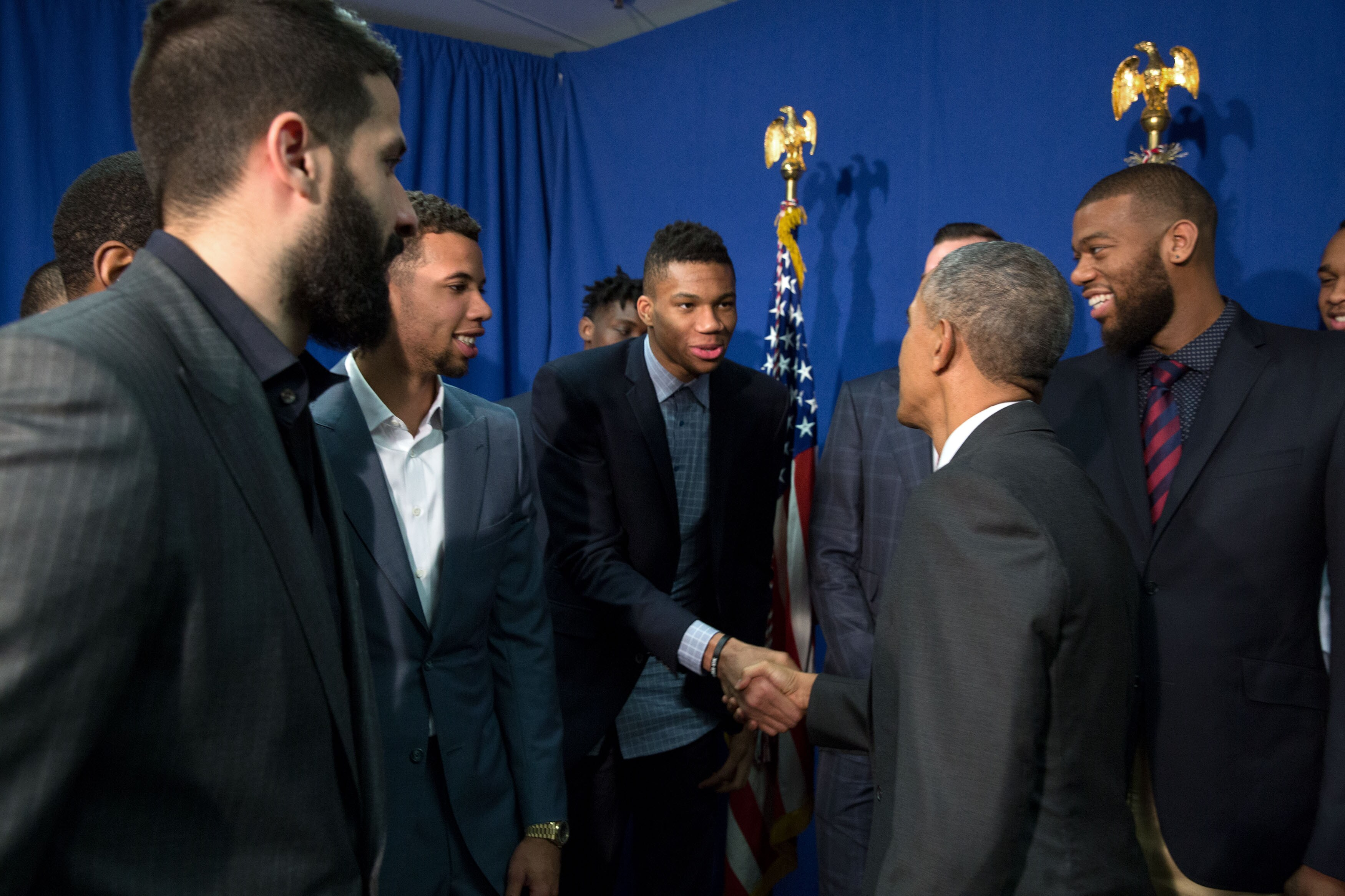 Barack Obama - Giannis Antetokounmpo handshake, Milwaukee Bucks in White House, April 2016. Greg Monroe on the left and Michael Carter Williams on the left. Photo by White House photographer Pete Souza